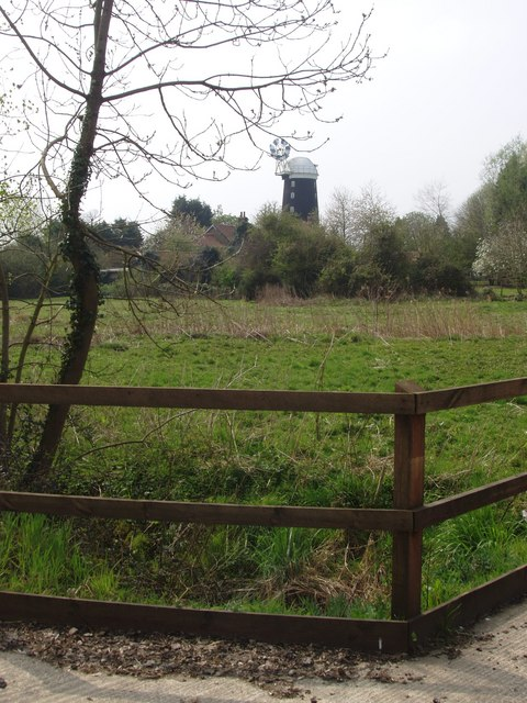 Northacre Windmill (aka Caston Tower Windmill)